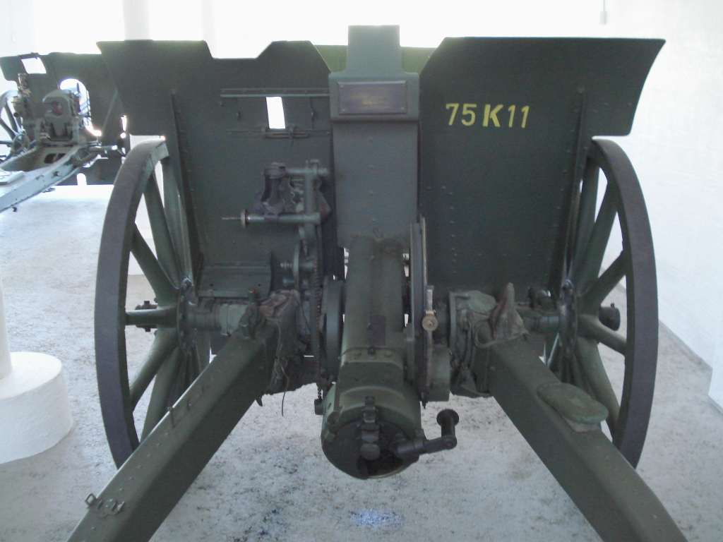 Italian Cannone da 75 modello 11, displayed in Hämeenlinna Artillery Museum. This gun was donated to Finnish armed forced by Italy in 1929. Photo taken on June 18, 2006. Source: Photo by me, User:Balcer. Description: [1]